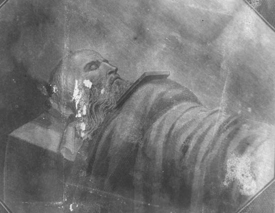 The dead Feodor Kuzmich